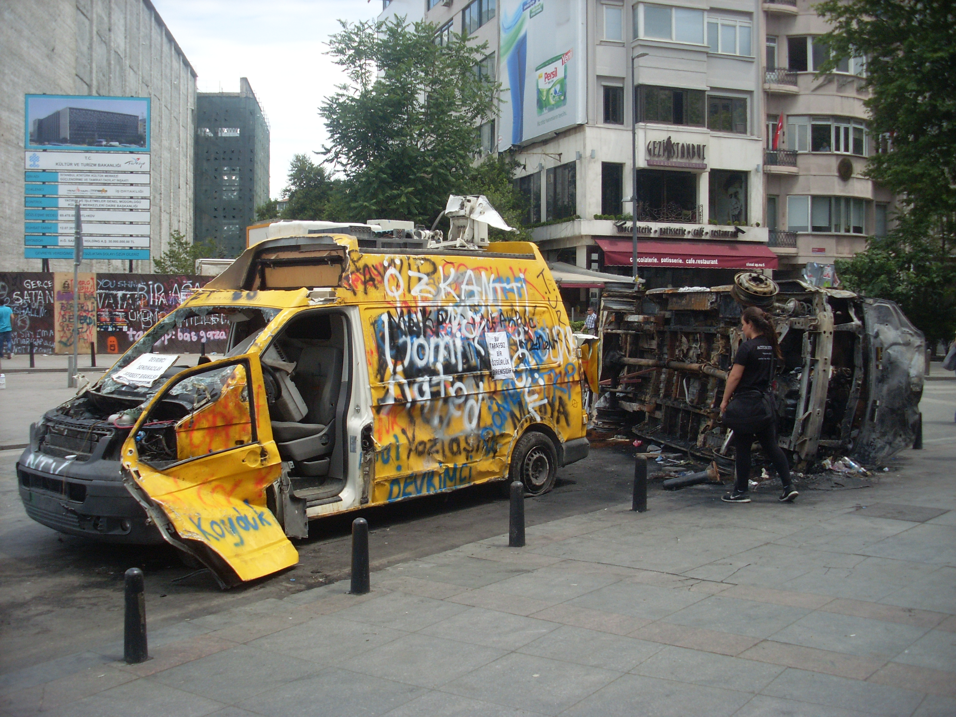 2013 Taksim Gezi Park protests, damaged NTV broadcast van and a car at Taksim Square, İnönü Street